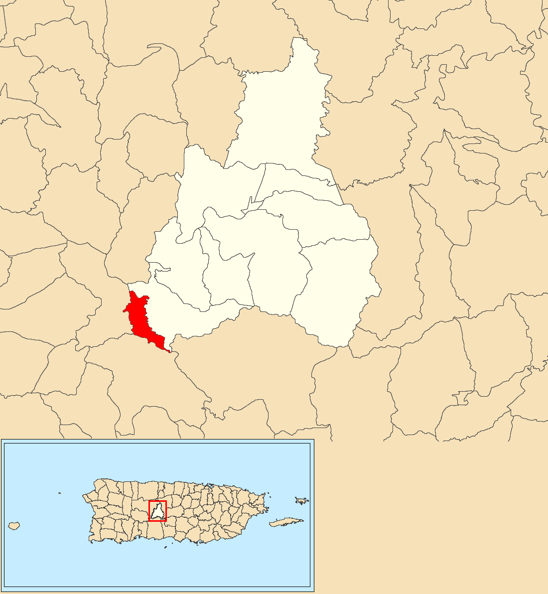 Pica, Jayuya, Puerto Rico locator map